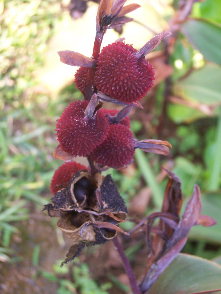 Canna indica Photo: B.Navez - 26 NOV 2005 - Réunion Island